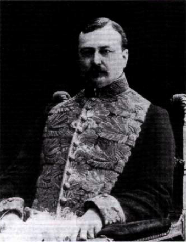 Pre-1917 photo of Count Pyotr Shilovsky, an inventor of Gyrocar and Russian jurist and statesman.